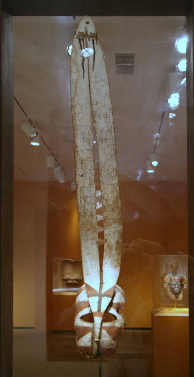 Mask, Northern Mossi peoples, Burkina Faso, Mid-20th century, Wood, paint, leather Masks of this type are associated with the antelope, one of several animals featured in regional myths. In the northern Mossi region, masks are used in burials, memorial celebrations and protective ceremonies and may perform for entertainment. The deceptively simple yet dramatic form of the mask contrasts with the complex history of migration, conquest and assimilation of its owners-individual Nyonyosé lineage groups. They are descendents of three blended groups: the original Dogon peoples, displaced by the westward-moving Kurumba peoples, and the Dagomba horsemen, a new ruling elite from the south that entered around 1500. The groups intermarried and integrated into the peoples now called Mossi. (National Museum of African Art)